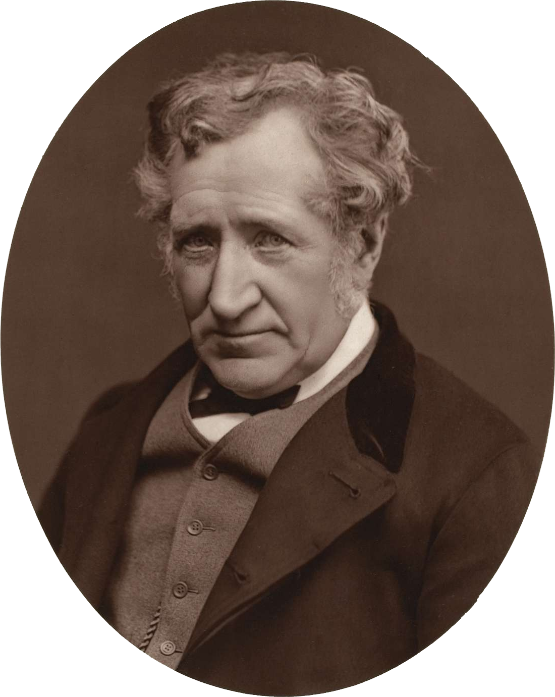 Woodburytype of James Nasymth